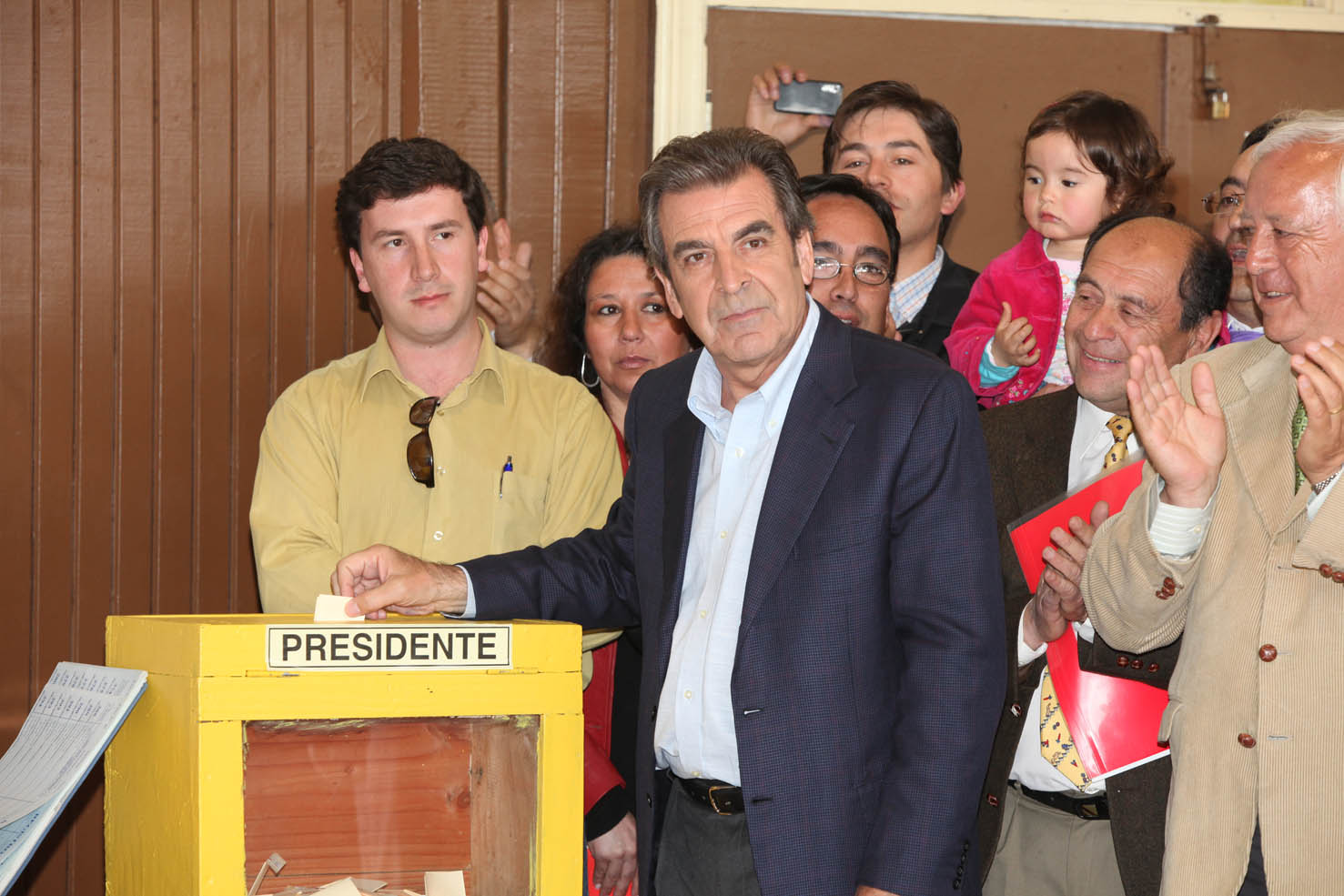 Eduardo Frei Ruiz-Tagle casts his vote in the Chilean presidential election, 2009